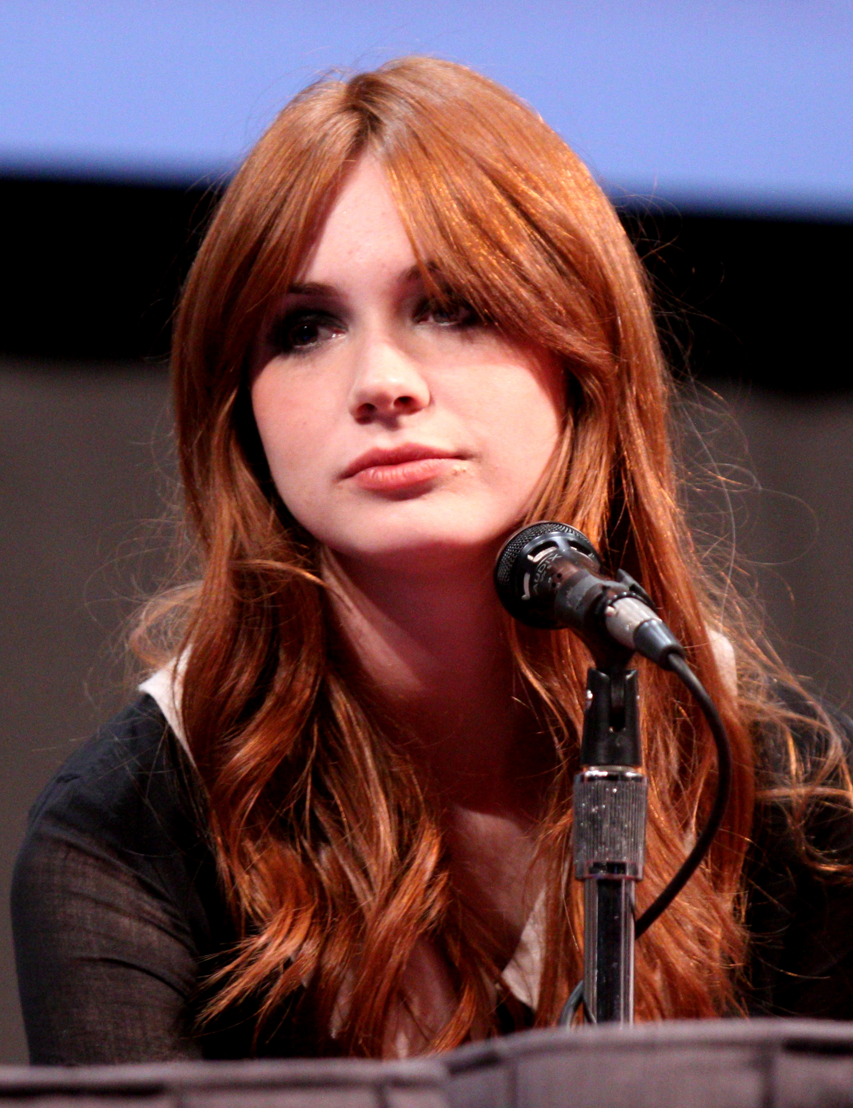 Karen Gillan at the 2011 Comic Con in San Diego